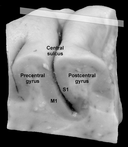 Pre- and post-central gyrus, right hemisphere. Microstructural 7-T MR mapping in post-mortem brains. Tissue block (pre- and post-central gyrus, right hemisphere) from a post-mortem human brain (female, 61 years, died of pulmonary failure and chronic obstructive pulmonary disease, autopsy performed with informed consent of the patient’s relatives, post-mortem interval before fixation 24 h, fixed in 4% formalin for 2 months) prior to MR scanning and histological processing. M1 = primary motor cortex in the posterior wall of the precentral gyrus, S1 = primary somatosensory cortex in the anterior wall of the post-central gyrus.